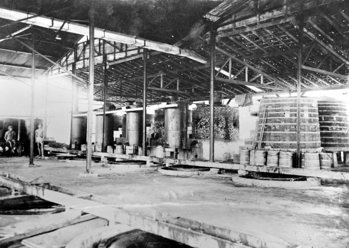 Liqueur distillery factory 'Aparak' in Batavia, West-Java